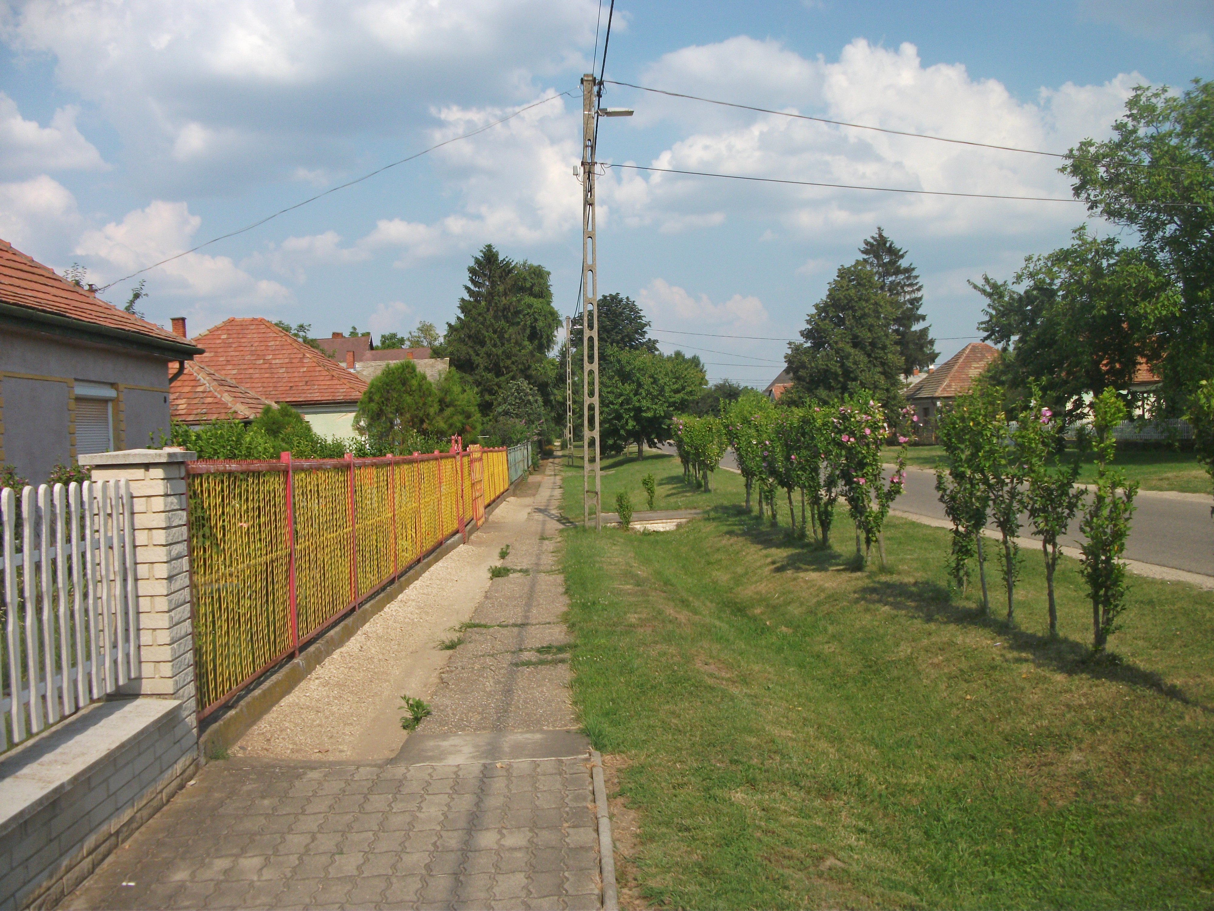 Sidewalk near Ady Endre street in Zichyújfalu, Hungary